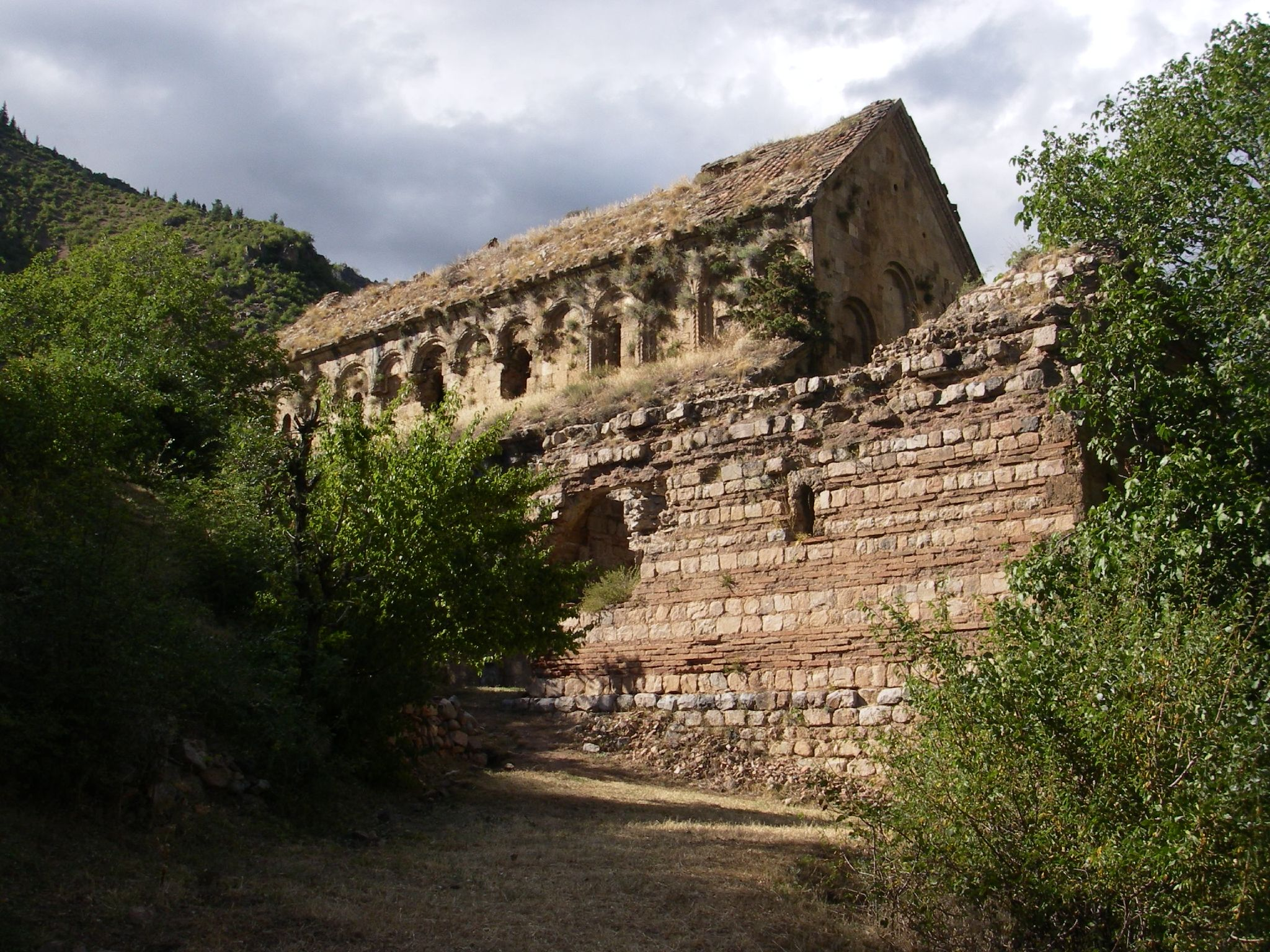 Dörtkilise (near Yusufeli, Artvin Province, North-East Turkey)